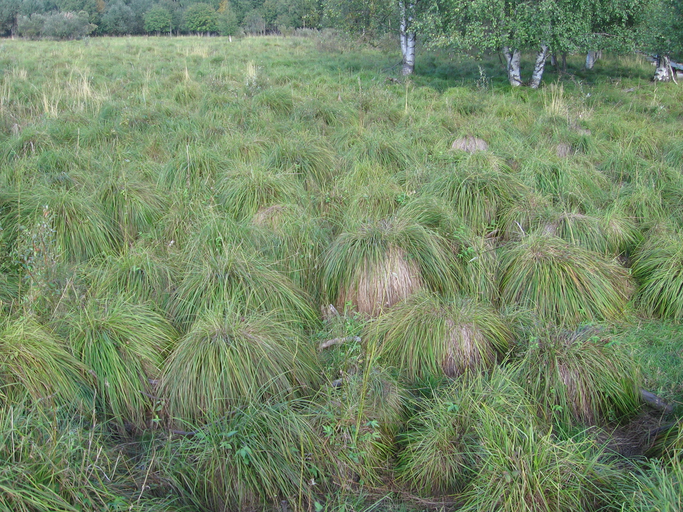 Tufted sedge (Carex cespitosa) growing on Koivusaari island Rovaniemi, Finland.